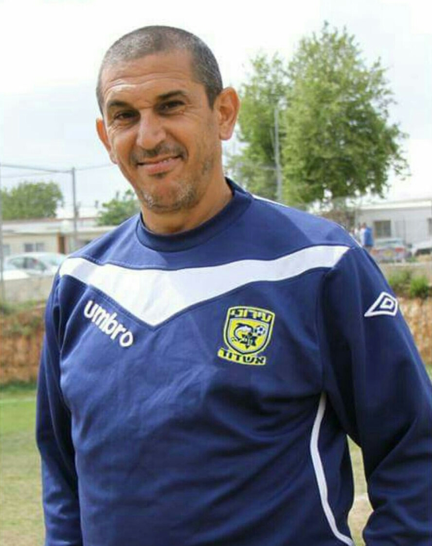 Sharon marciano - meneger maccabi ironi ashdod